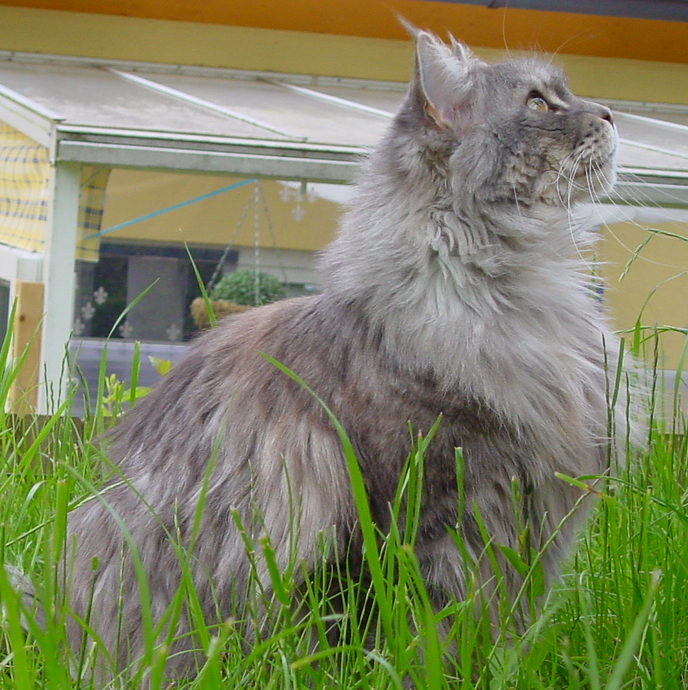 It's Me Cirrus Minor, called Lara, Maine Coon, female, blue silver tabby mackerel, 11 days before 8th birthday, hunting a bird